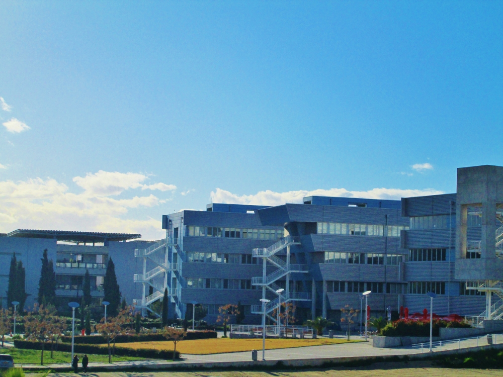 Mathematics Department building University of Cyprus in Nicosia Republic of Cyprus